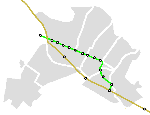 Existing and under construction lines of Karaj Metro